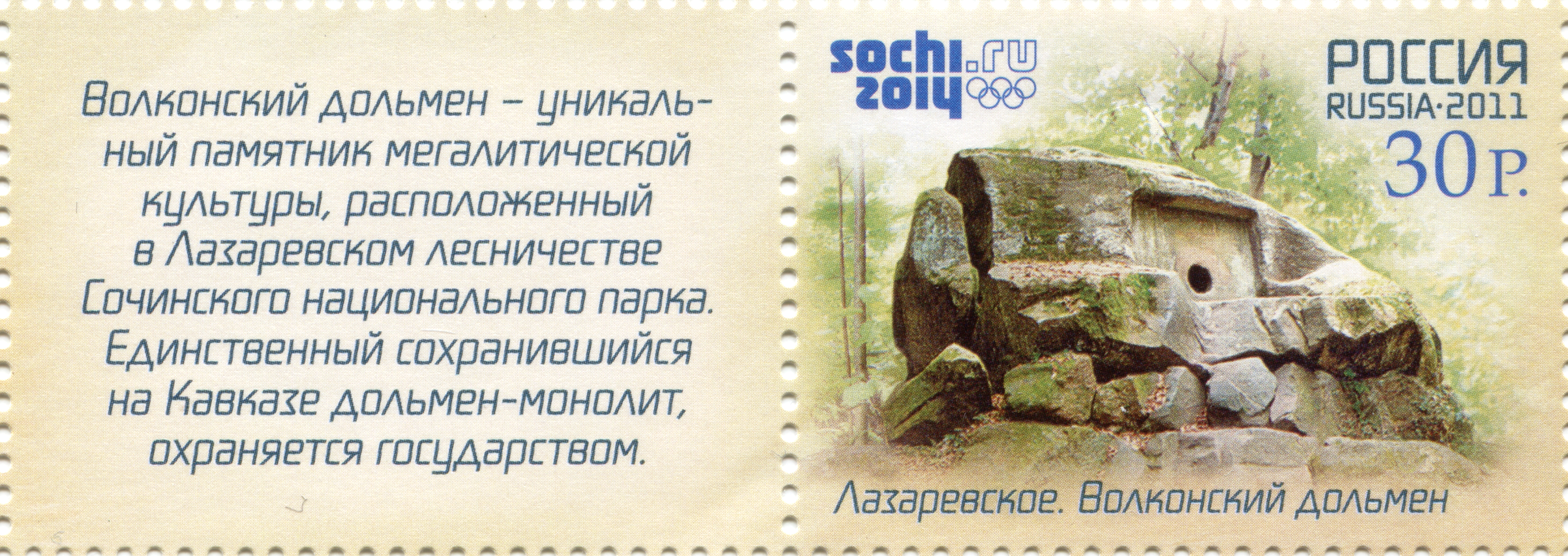 XXII Olympic winger games in Sochi Volkonskiy Dolmen is a unique megalithic landmark located at Lazarevskoye forestry of the Sochi national park. It is the only surviving monolithic dolmen in the Caucasus and is protected by the state. The stamp of Russia, 2011, PTC Marka Catalogue 1524-1527.